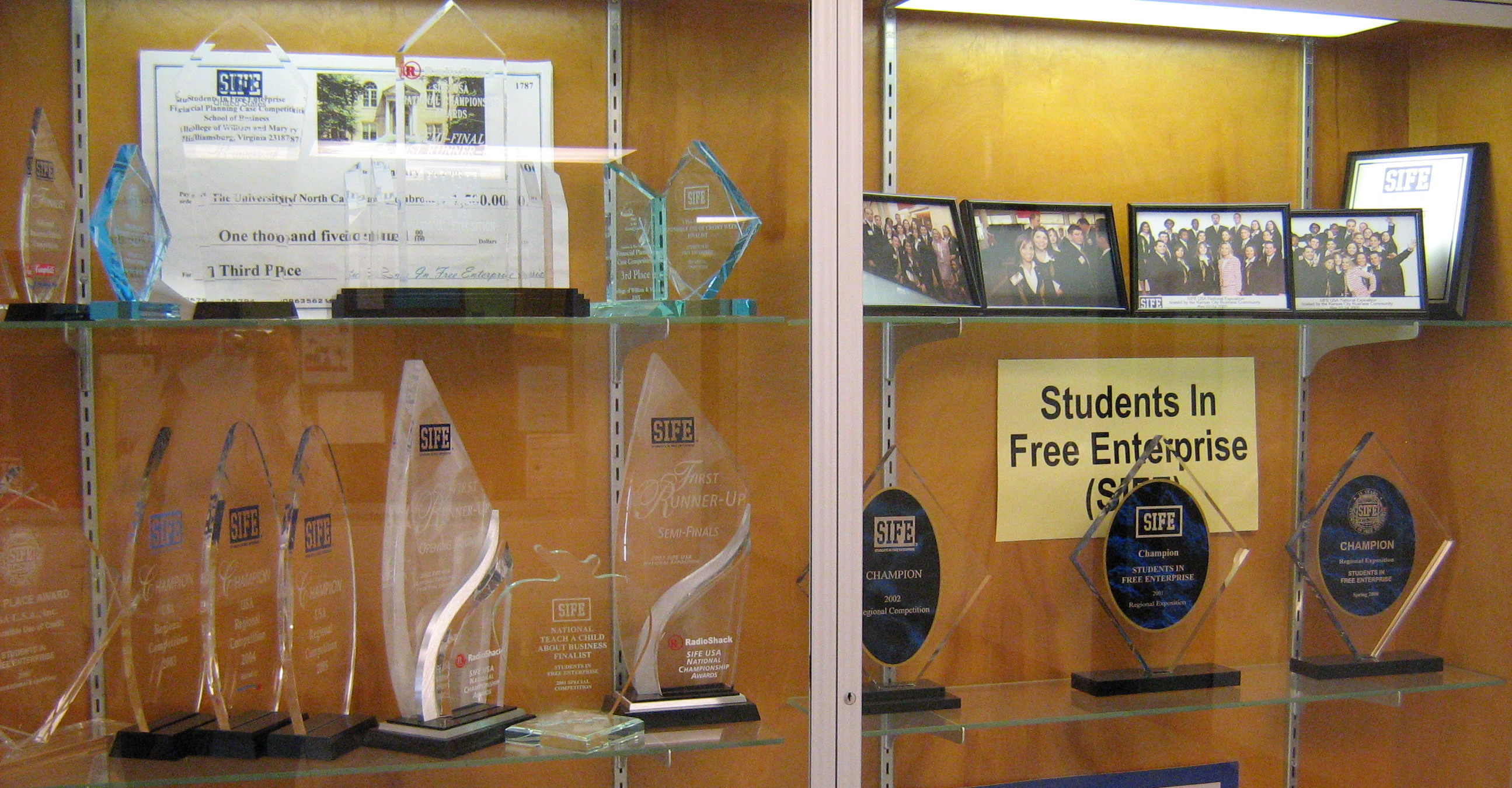 School of Business - part of the SIFE display - at The University of North Carolina at Pembroke.